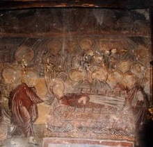 Sain Menas Church in Velvento Assumption of Mary Fresco on the Western Wall